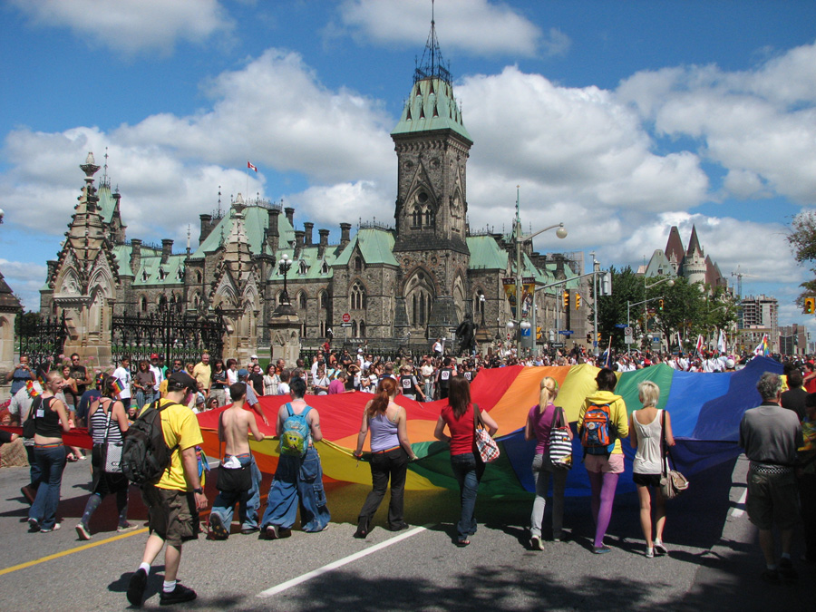 My own pictures